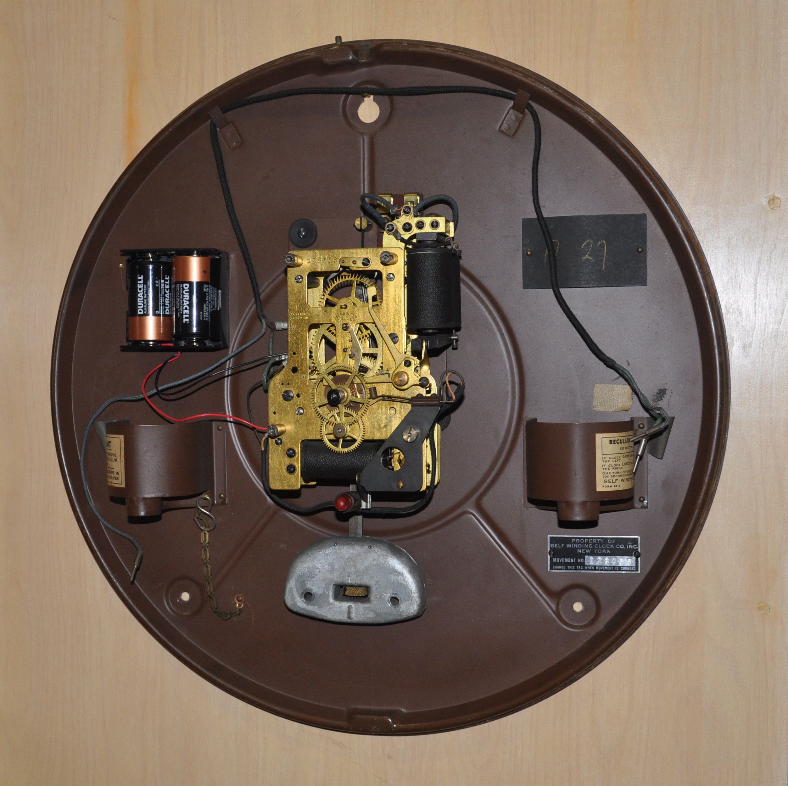 Interior of a typical SWCC Western Union - Naval Observatory rental clock. Bottom coils wind the mainspring every 60 minutes. Right side coils activate synchronizing arm exactly on the hour to position the clock hands.